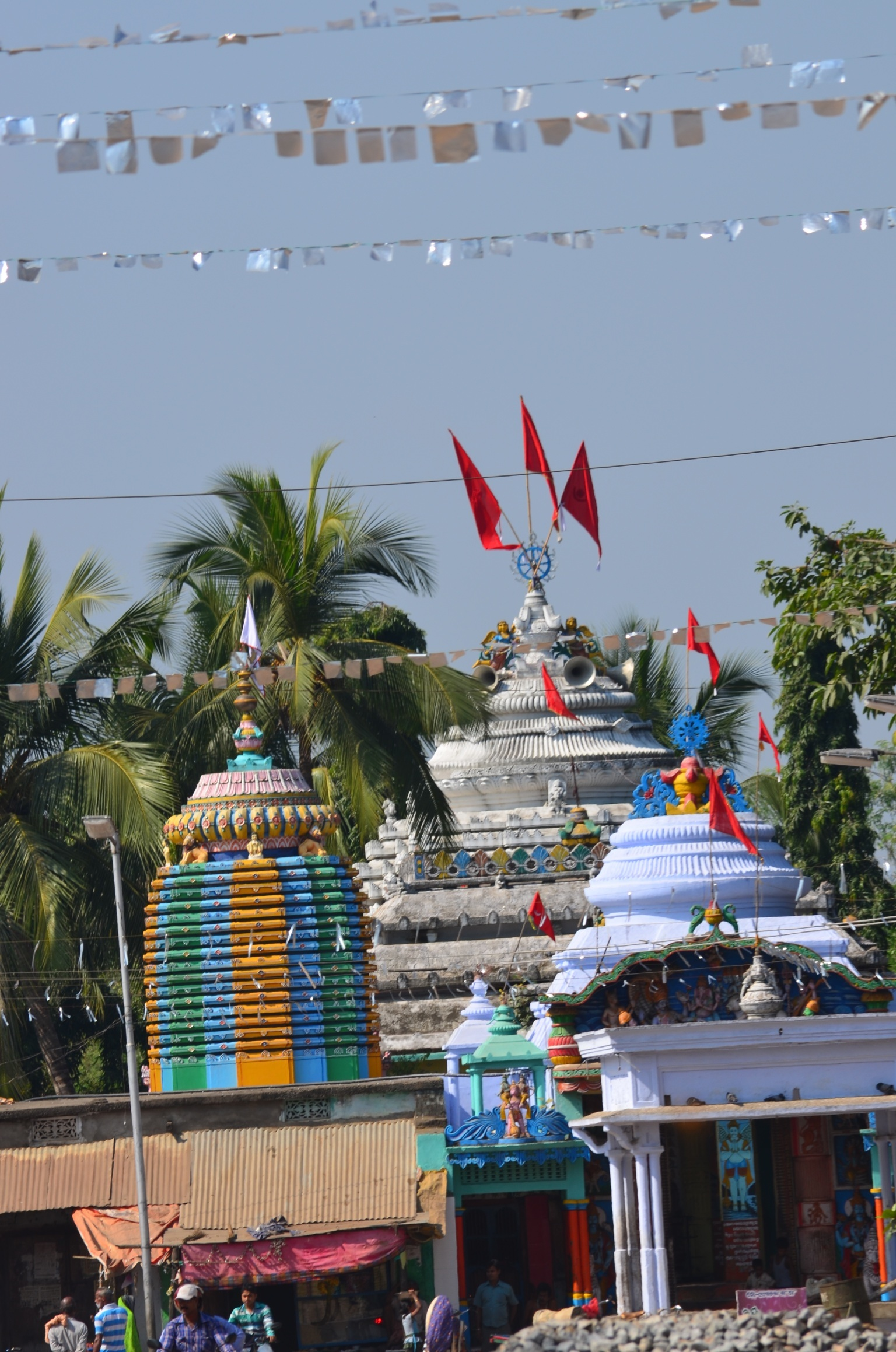 Baladev Temple at Buguda,Ganjam